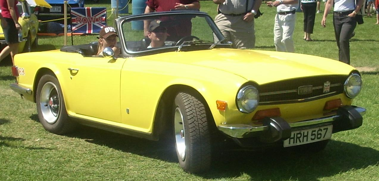 Triumph TR6 photographed at the 2008 Hudson British Car Show